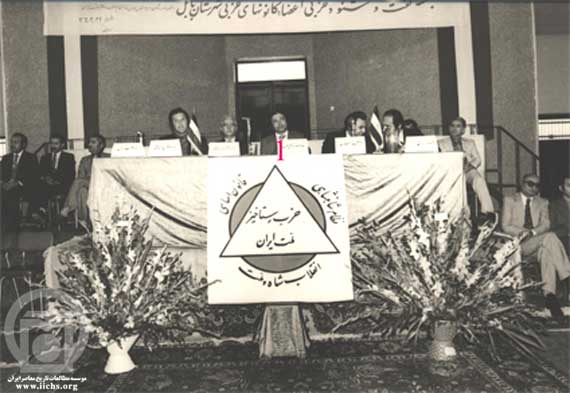 Rastakhiz Party. Dariush Homayoon is depicted